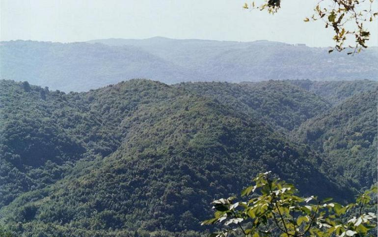 Natural Mediterranean vegetation of the Calabrian region's mountains.